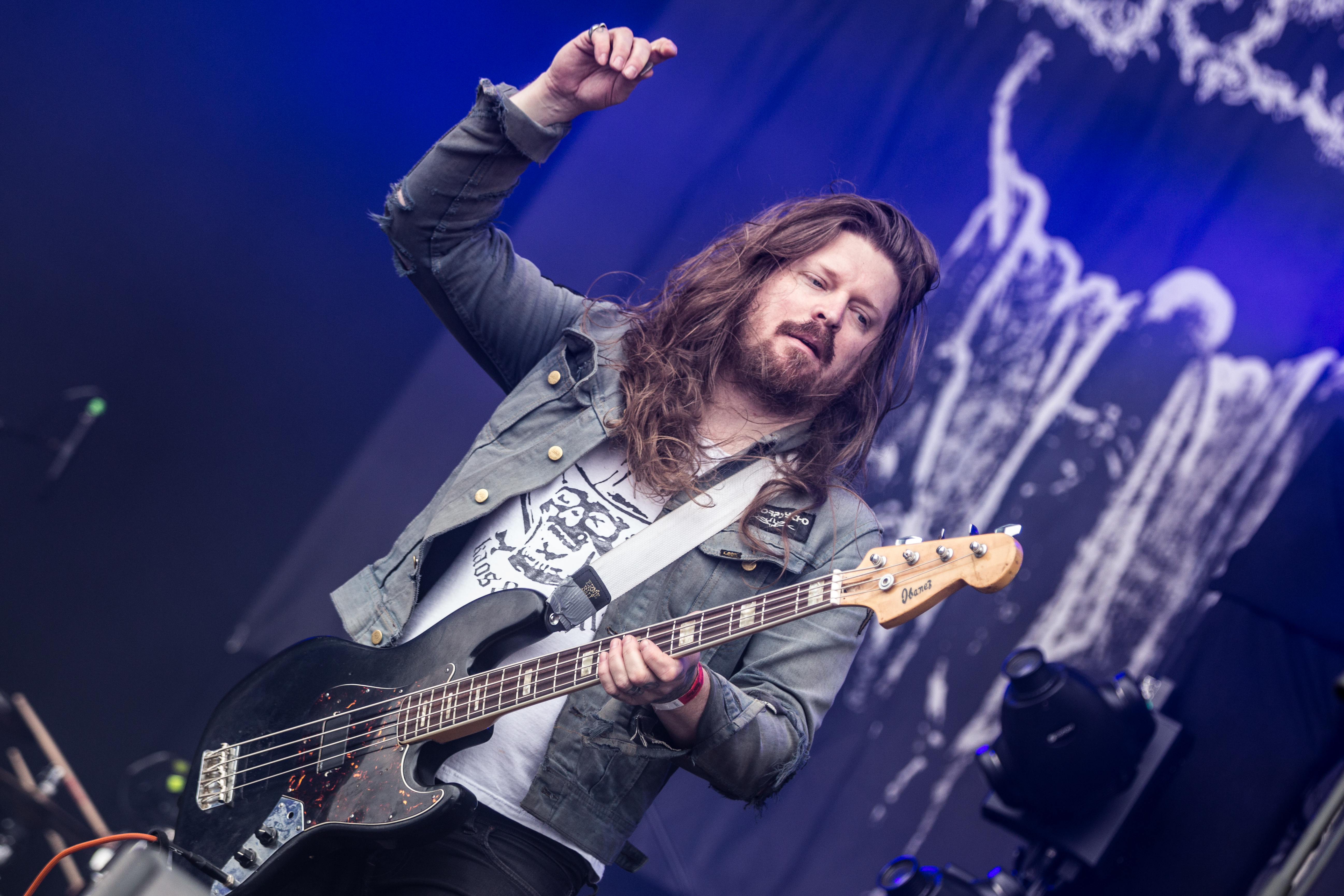 The Swedish death/thrash metal band Merciless at the Party.San Metal Open Air 2017 in Obermehler-Schlotheim/Germany.